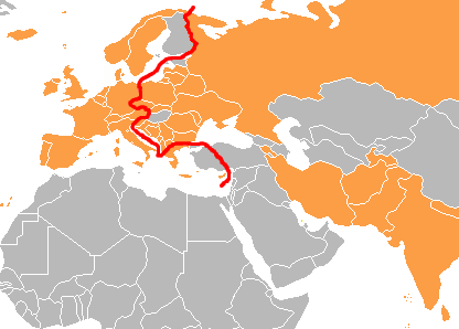 Modern situation of the centum-satem isogloss